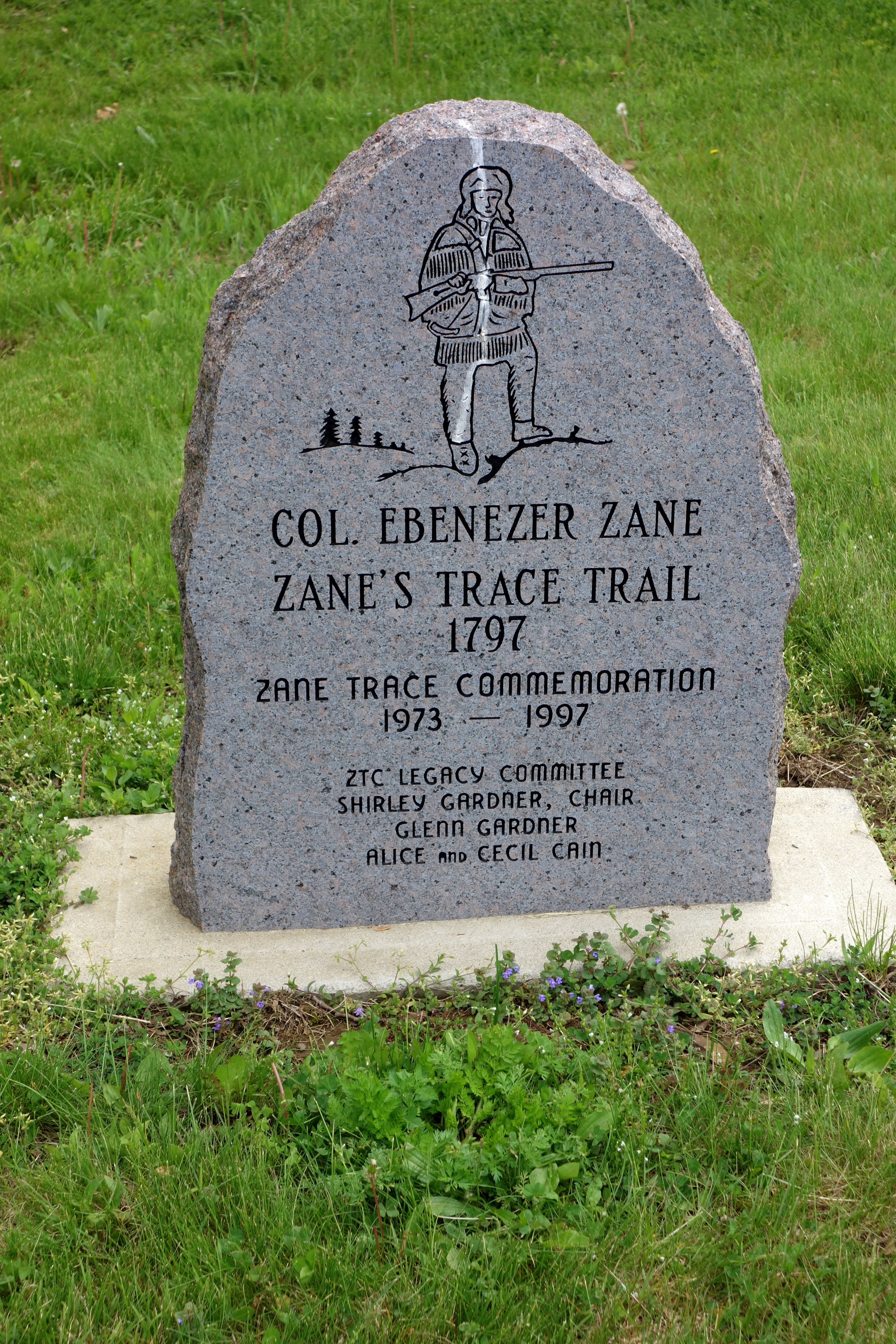 National Road Museum, 8850 East Pike, Norwich, Ohio, USA.